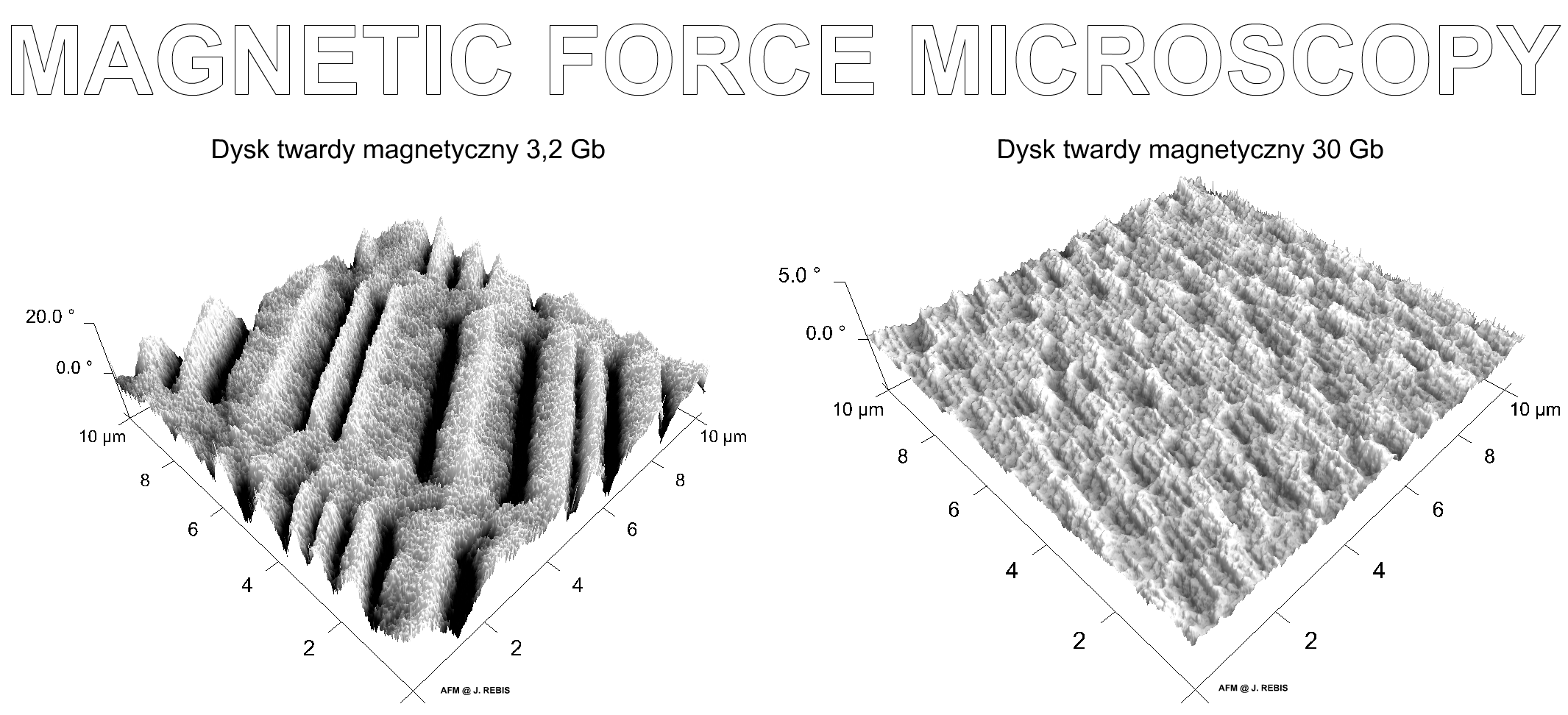 MFM (magnetic force microscope) images of 3.2 Gb and 30 Gb computer hard-drive surfaces. Shows bits of information written on magnetic memory (hard disk drive platter). One can see evolution of smaller magnetic domains caused nanomaterials commercialization.